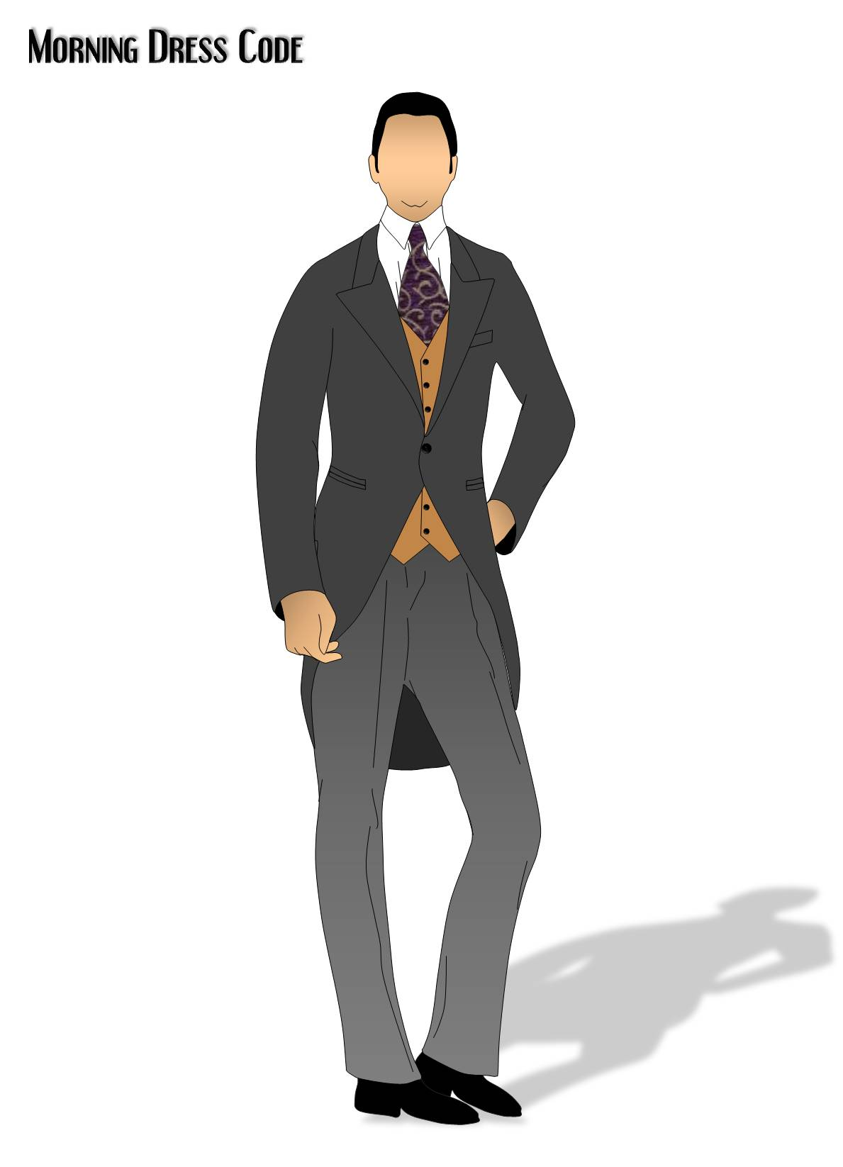 Morning Dress Code